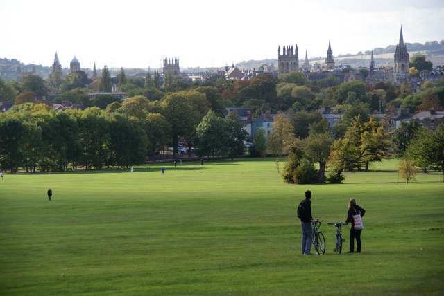 South Park The open spaces provide very welcome relief. They are of course backed by views of Oxford's skyline.